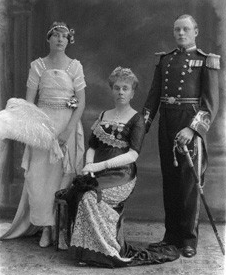 Left: Barbara Arundell Clarke, (Lady Wood), wife of Sir John Stuart Page-Wood, 6th Baronet (died 1955); Centre Constance Barbara Clarke (Lady Baird, later Lady Kennedy) (died 1931), of Fremington House, North Devon; Right Sir John Stuart Page Wood, 6th Baronet. Portrait by Bassano Ltd, 29 June 1920. National Portrait Gallery, London, NPG x74940